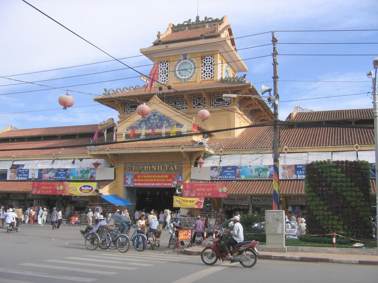 Binh Tay Market in Cho Lon, Ho Chi Minh City, Vietnam.